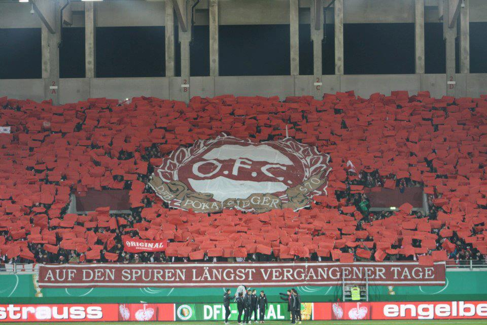 Choreographie zum DFB-Pokalspiel gegen VfL Wolfsburg am 26.02.2013